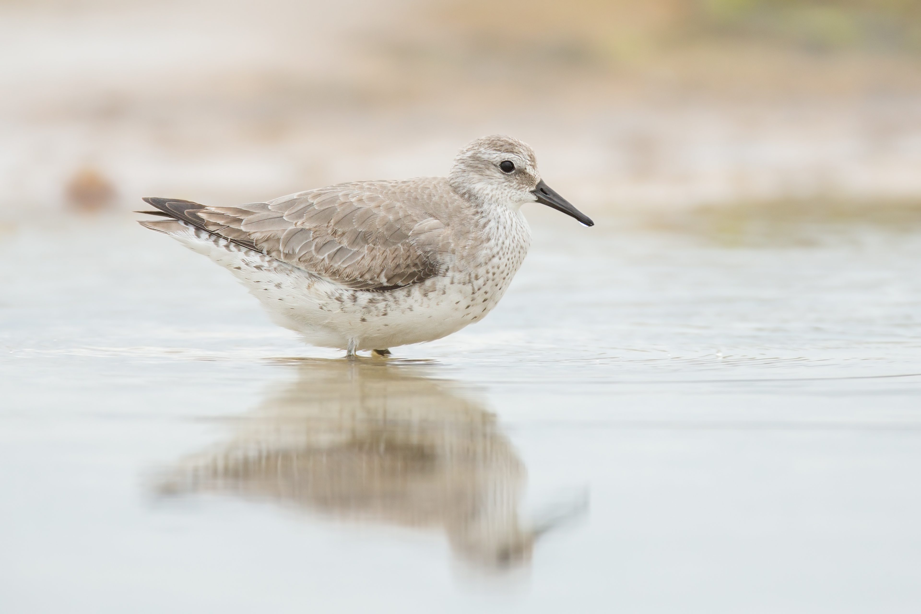 Red Knot (Calidris canutus), Boat Harbour, New South Wales, Australia